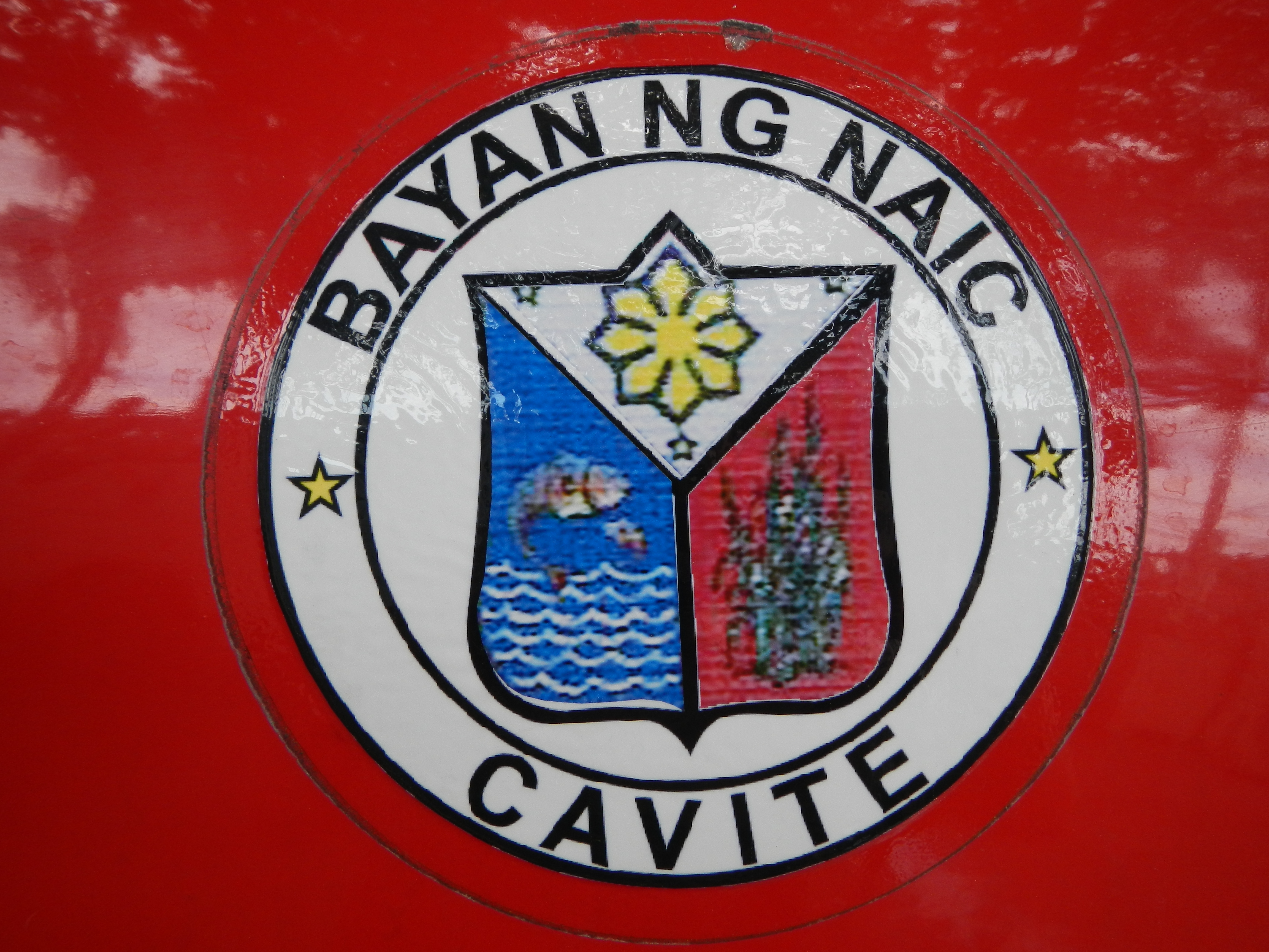 Municipal Town Hall Complex of Naic, Cavite which includes the Sangguniang Bayan and its Session Hall, the Town Hall of Naic, its Mayor's Office, and other Municipal Offices including the Naic PNP or Police station in Barangay Ibayo -- very near the --- Junction, Crossing, the USAFFE, Col. Esteban Taparans Guerilla Unit, World War II Veterans and Heroes of Naic Monument, Memorial, Veterans Federation of the Philippines---beside the Municipal Buidling, Barangays Ibayo (Estacion Ibayo Silangan) a A. Soriano Highway[1] Intersection - The westernmost part of the highway before turning southward. Right goes to Tanza, all the way up to Kawit via A. Soriano Highway. Heading stright goes to Naic Town Proper. Turning left goes to Maragondon and Ternate and is the continuation of Governor's Drive.[2]) gateway beside its neighbor Barangay Sabang, the home of Philippine Racing Club, Incorporated's "Saddle & Clubs Leisure Park" in Naic, the new Santa Ana ParkSanta Ana Park (since 1937) 65-hectare racecourse 40th PCSO Presidential Gold Cup --- Naic, Cavite[3] is a first class municipality in the province of Cavite, [4] Philippines. It is just 47 km away from the city of Manila. According to the 2010 census, it has a population of 88,144 people in a land area of 76.24 square kilometers. [5] Coordinates: 14°17'39"N 120°47'57"E [6]G eographical location: Cavite, Region 4, Philippines, Asia geographical coordinates: 14° 19' 13" North, 120° 46' 3" East This place is situated in Cavite, Region 4, Philippines, its geographical coordinates are 14° 19' 13" North, 120° 46' 3" East and its original name (with diacritics) is Naic. [7] [8]